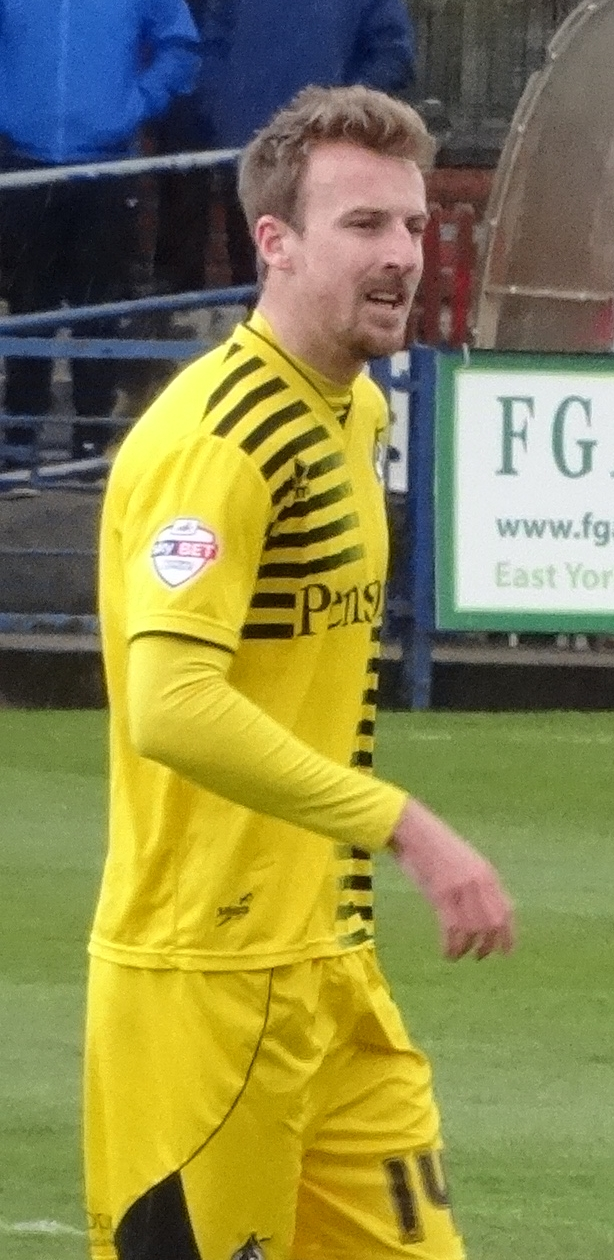 Chris Lines playing for Bristol Rovers against York City at Bootham Crescent, York on 30 April 2016